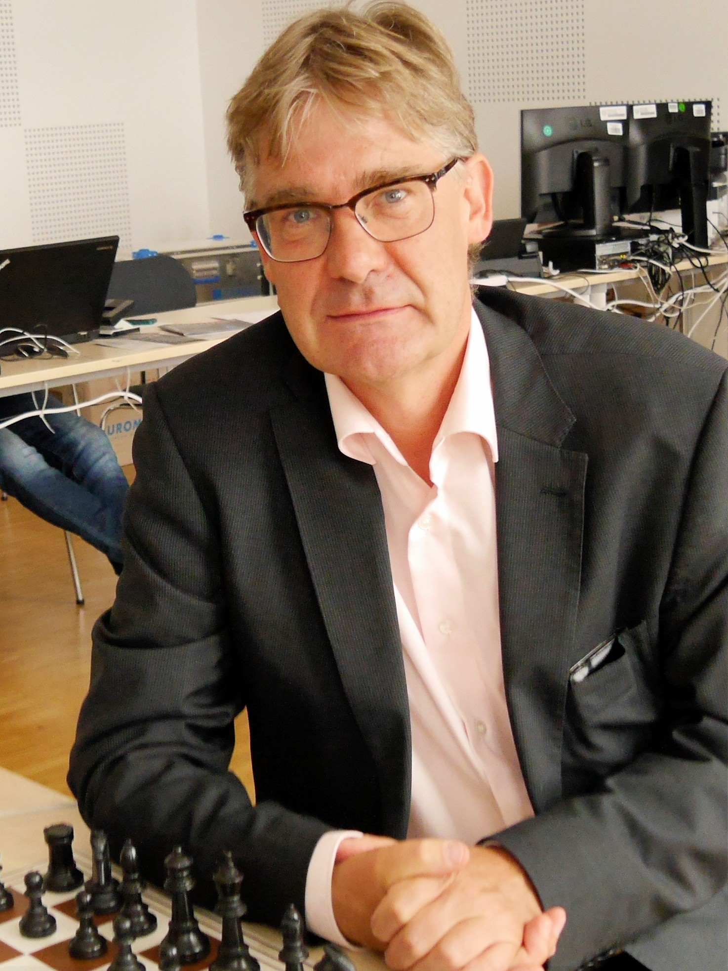 Jeroen van den Berg (Tournament Director, Tata Steel Chess), 2017 at Dortmund.